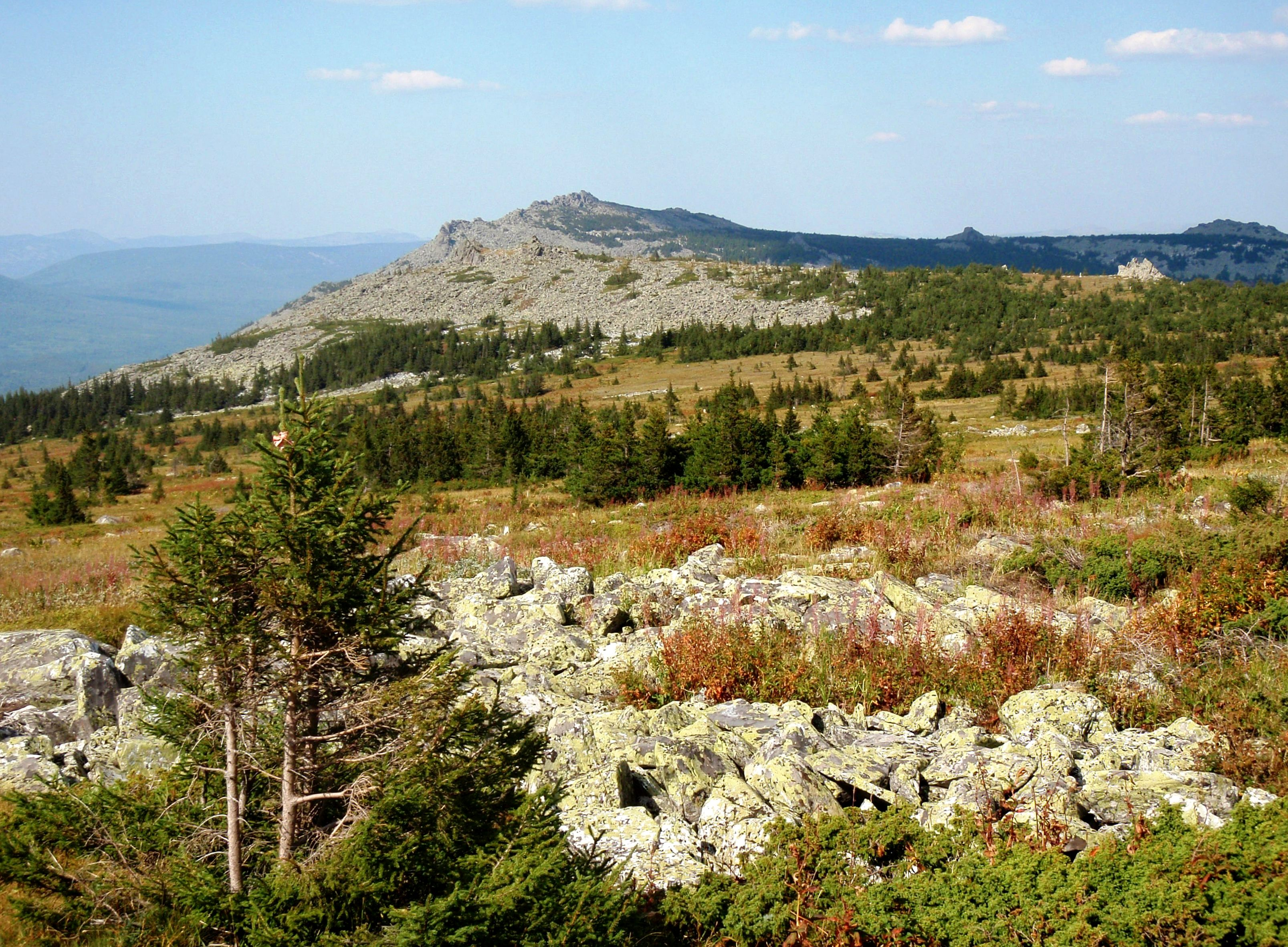 This image is related to the protected area of Russia number 0210061